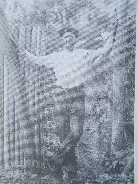 Hans Meyer in 1889 at the Basic Camp near Kilimandjaro (Africa)